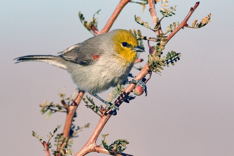 Auriparus flaviceps - Verdin, Visitor's Center, Anza Borrego Desert State Park, Borrego Springs, California